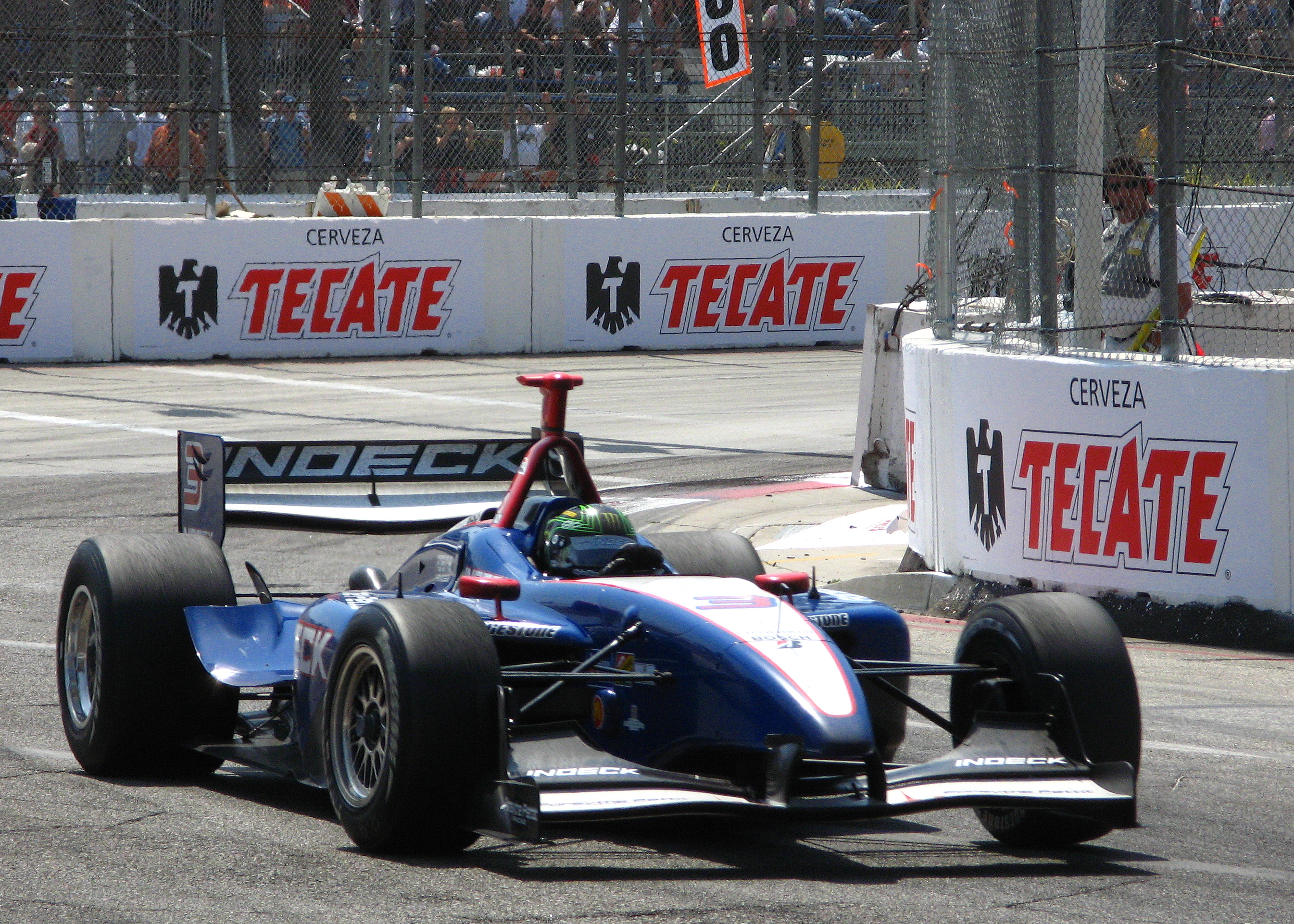 Paul Tracy racing in the 2008 Gran Prix of Long Beach of the Champ Car World Series' final event.